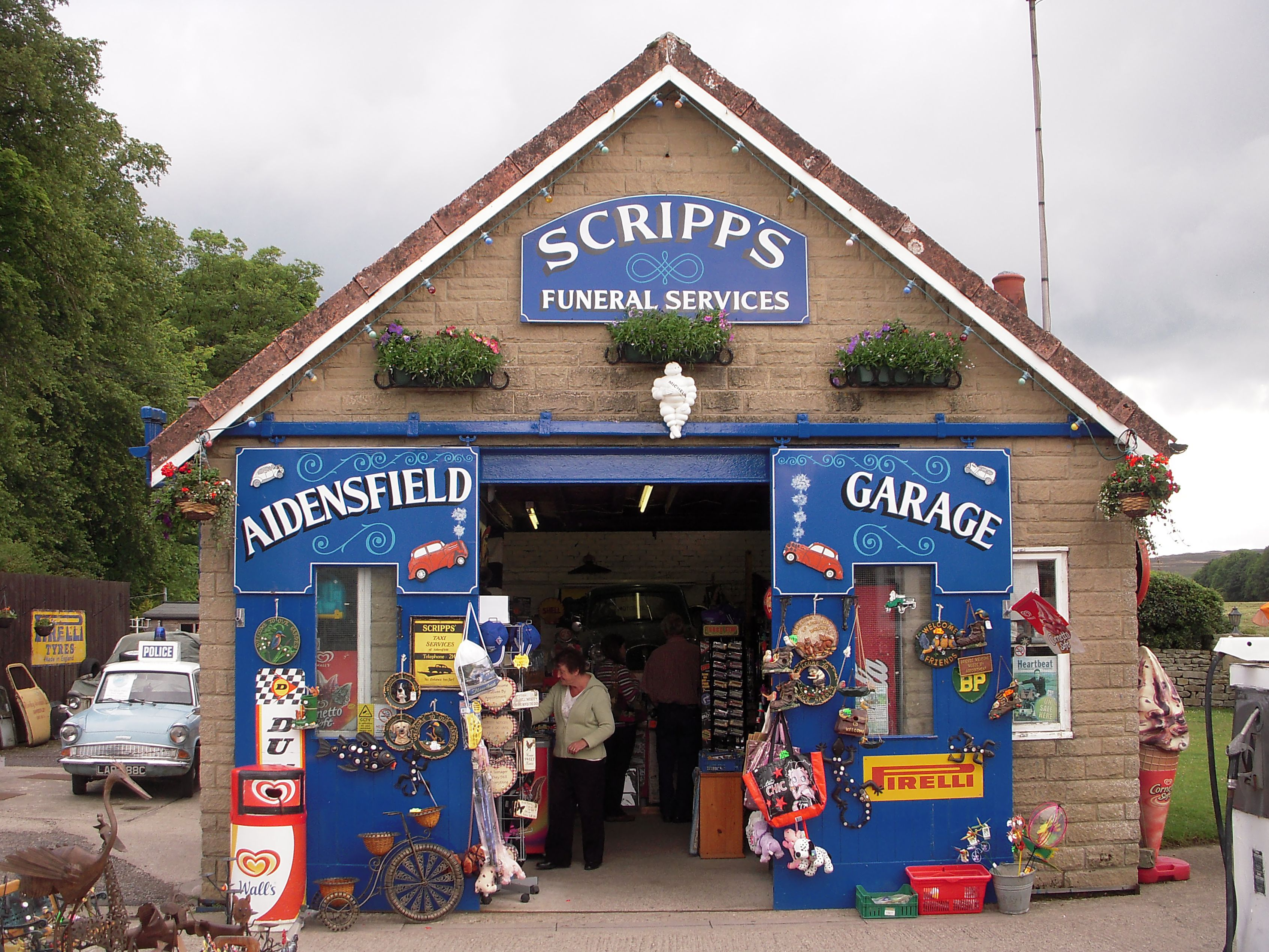 Goathland Garage, aka Scripp's Garage in "Heartbeat", july 2011.